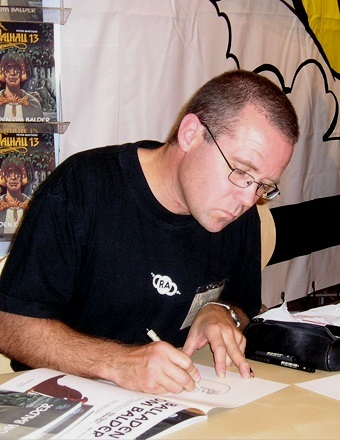 Danish cartoonist, Peter Madsen, during the 2006 Gothenburg Bookfair